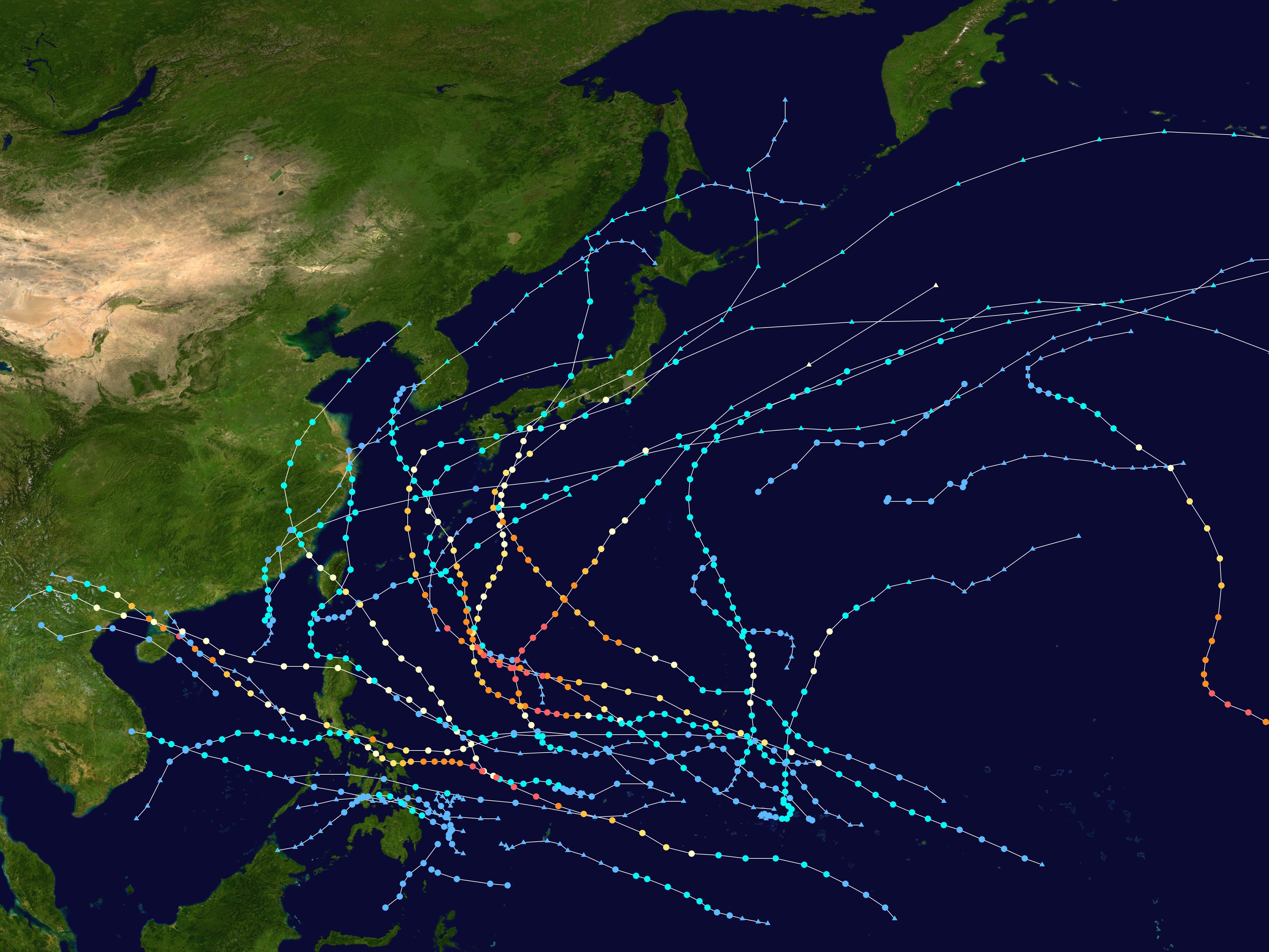 This map shows the tracks of all tropical cyclones in the 2014 Pacific typhoon season. The points show the location of each storm at 6-hour intervals. The colour represents the storm's maximum sustained wind speeds as classified in the Saffir-Simpson Hurricane Scale (see below), and the shape of the data points represent the type of the storm. Saffir–Simpson scale Tropical depression≤38 mph≤62 km/h Category 3111–129 mph178–208 km/h Tropical storm39–73 mph63–118 km/h Category 4130–156 mph209–251 km/h Category 174–95 mph119–153 km/h Category 5≥157 mph≥252 km/h Category 296–110 mph154–177 km/h Unknown Storm type Tropical cyclone Subtropical cyclone Extratropical cyclone / Remnant low / Tropical disturbance / Monsoon depression